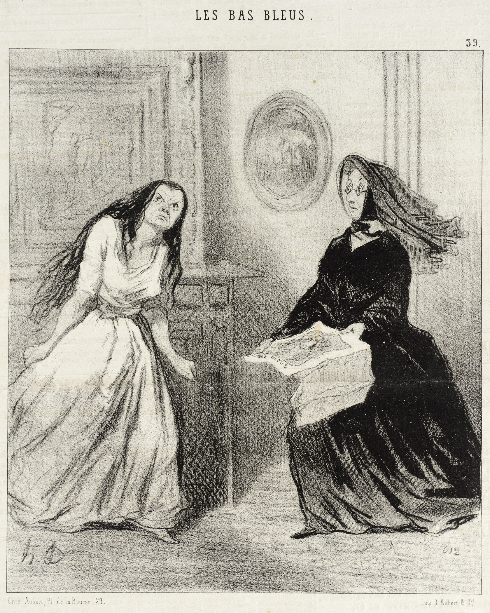 France, 1844 Series: Les Bas-blues, no. 39 Periodical: Le Charivari, 3 August 1844 Prints; lithographs Lithograph Sheet: 8 11/16 x 7 1/2 in. (22.07 x 19.05 cm) Gift of Mrs. Florence Victor from The David and Florence Victor Collection (M.91.82.194) Prints and Drawings